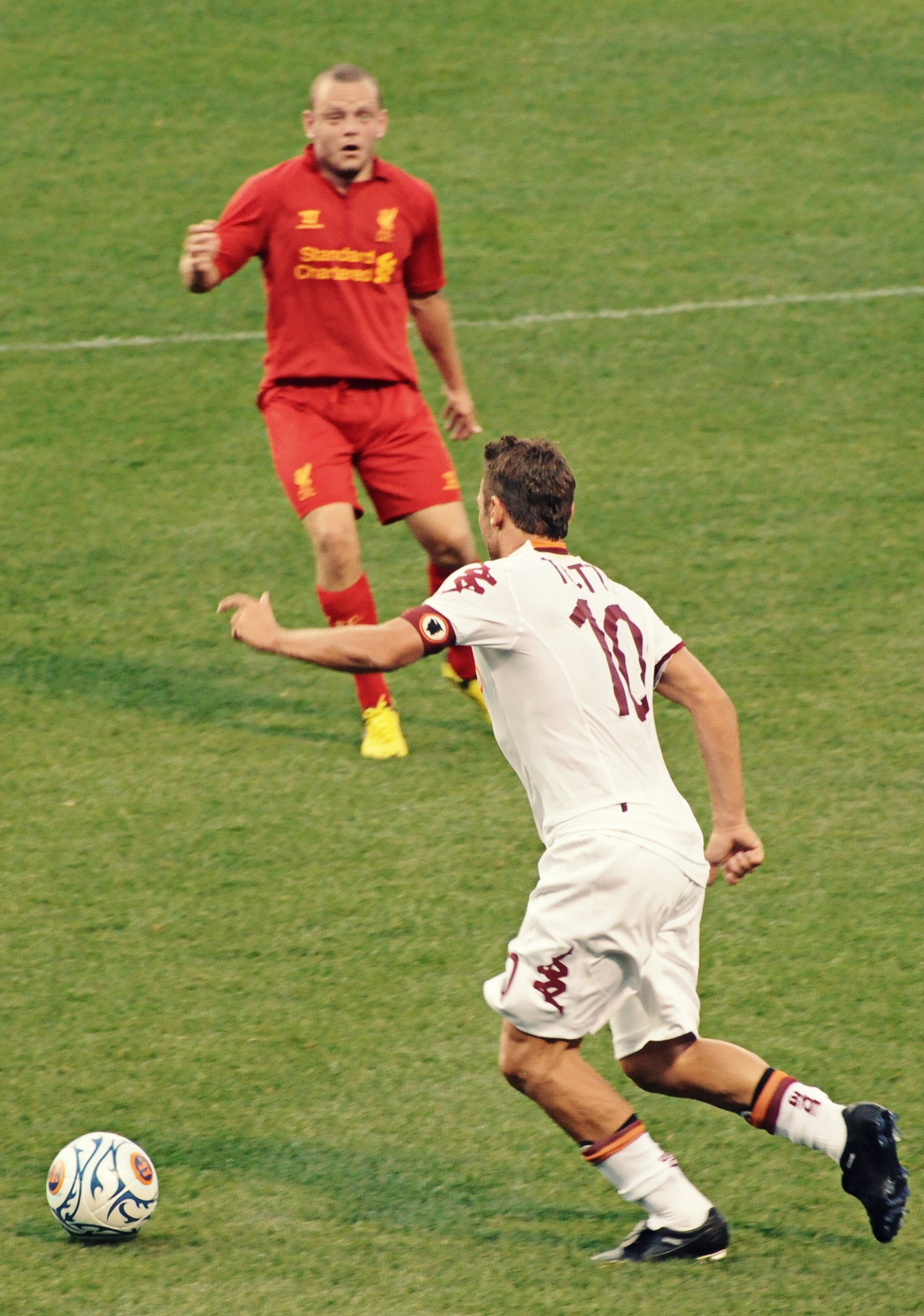 Francesco Totti playing against Liverpool